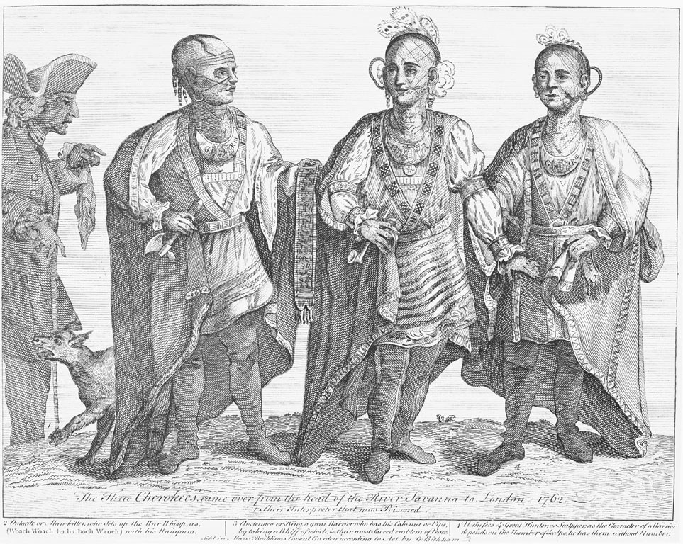 The Three Cherokees. came over from the head of the River Savanna to London.From l to r: Outacite (Man-killer), Austenaco (Judd's friend), and Uschesees ye Great Hunter (Cunne Shote?)